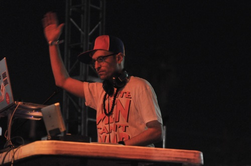 Peanut Butter Wolf - Live DJ set